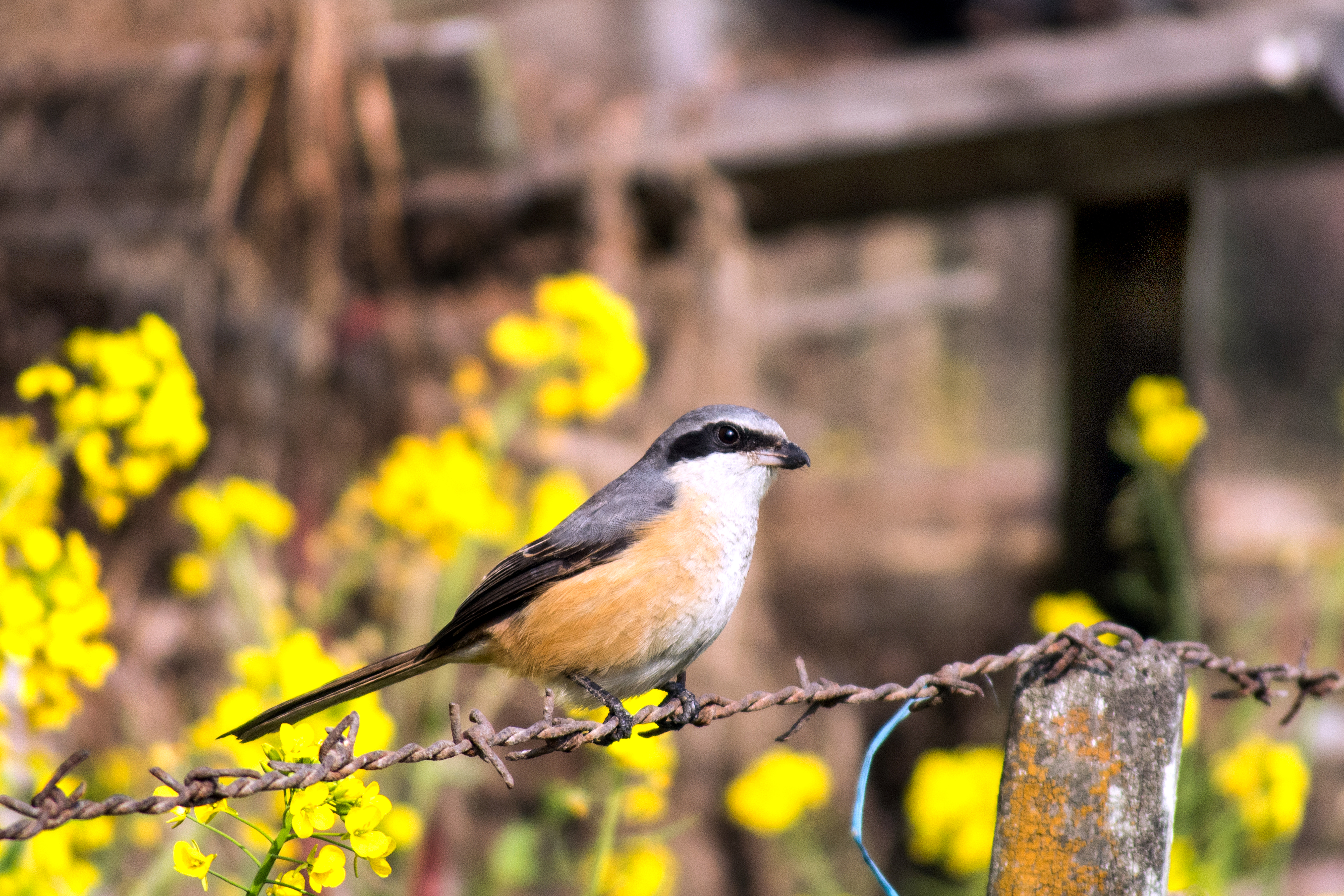 Long tailer shrike - Lanius schach (nep- Bhadrai).